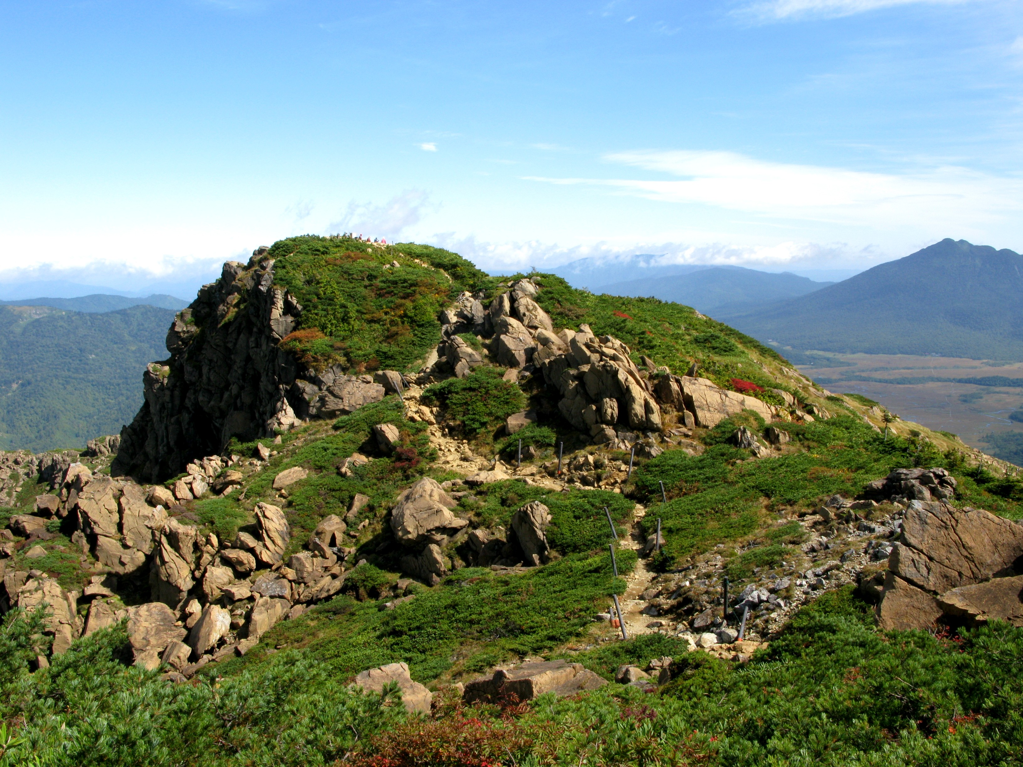 Mt.Shibutsu-san,Gunma pref.,Japan